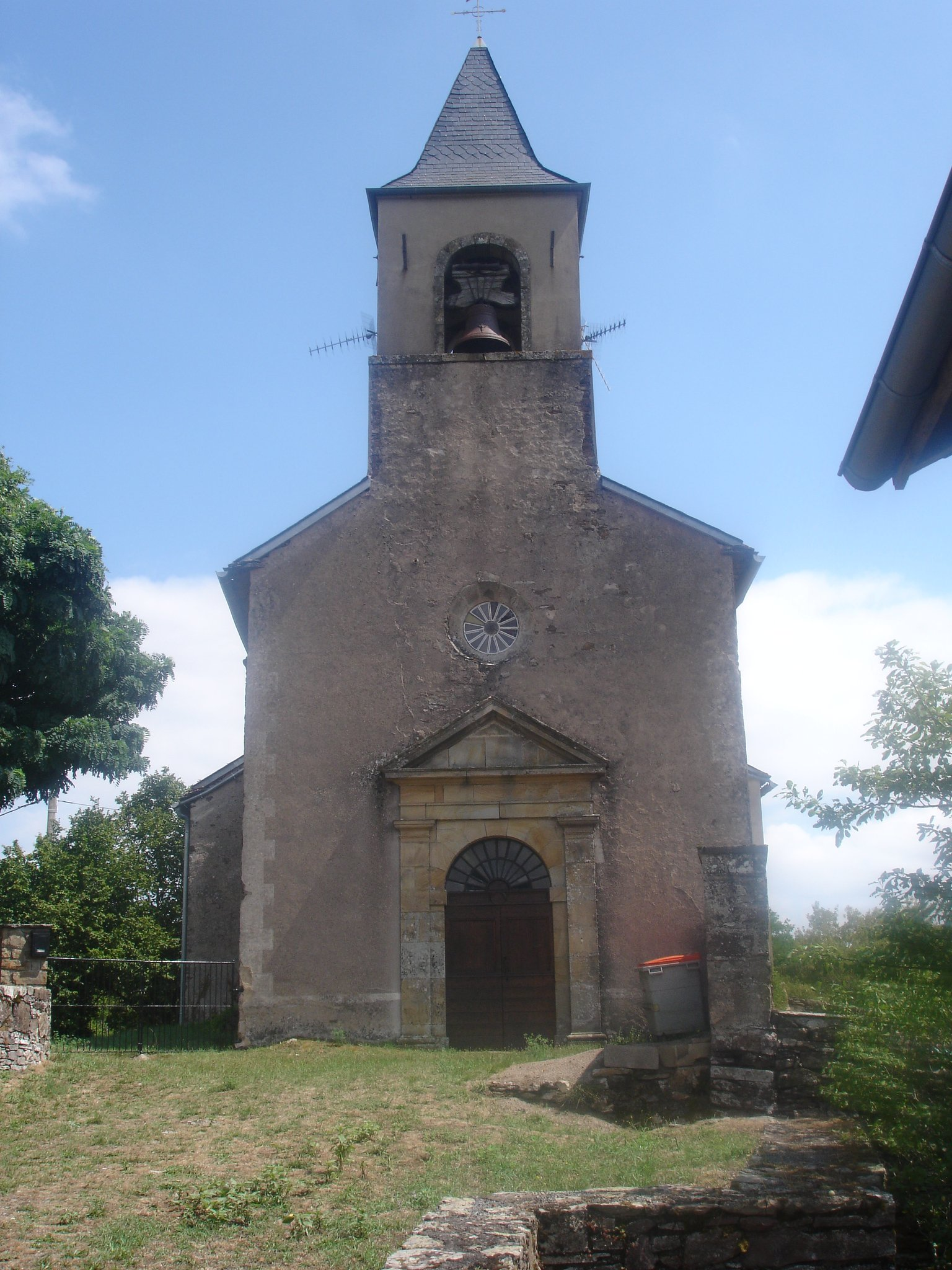 Brousse-le-Château - France, Aveyron (12), Saint-Cirice Church